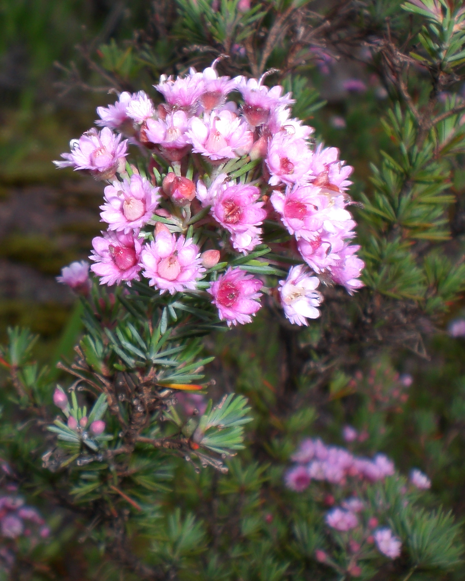 Verticordia plumosa on Mount Melville, Albany, Western Australia.